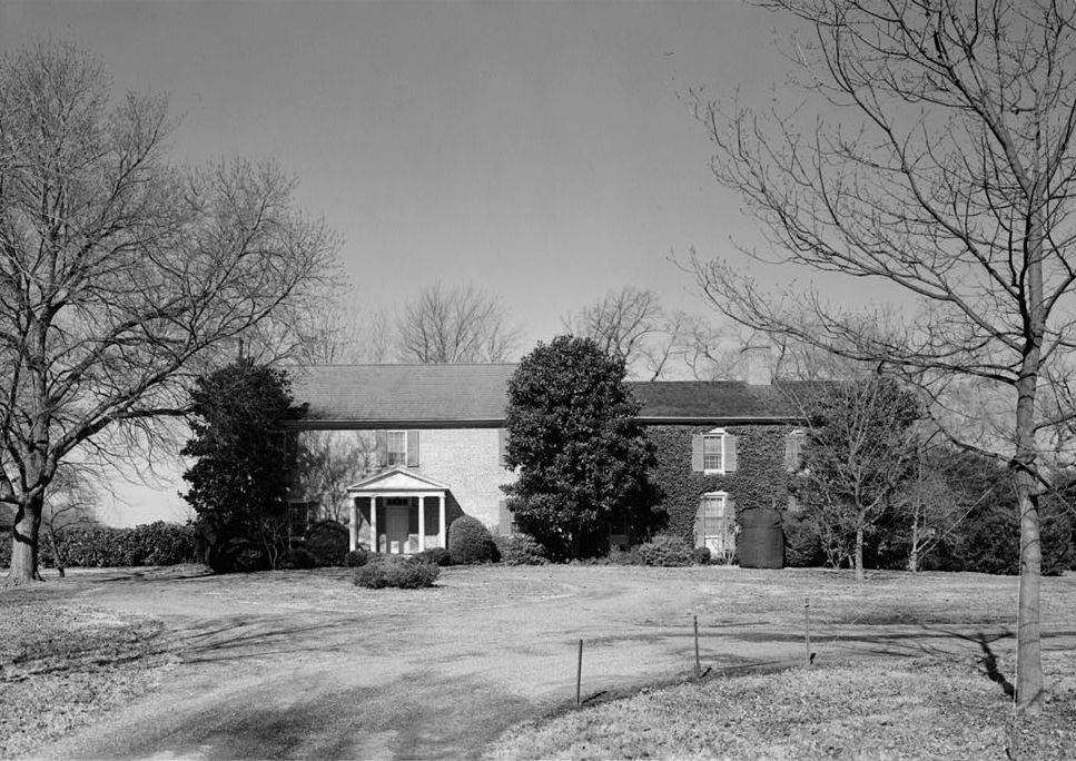 Bowlingly mansion, State Route 18 vicinity, Queenstown, Queen Anne's County, Maryland. East elevation, taken from drive.